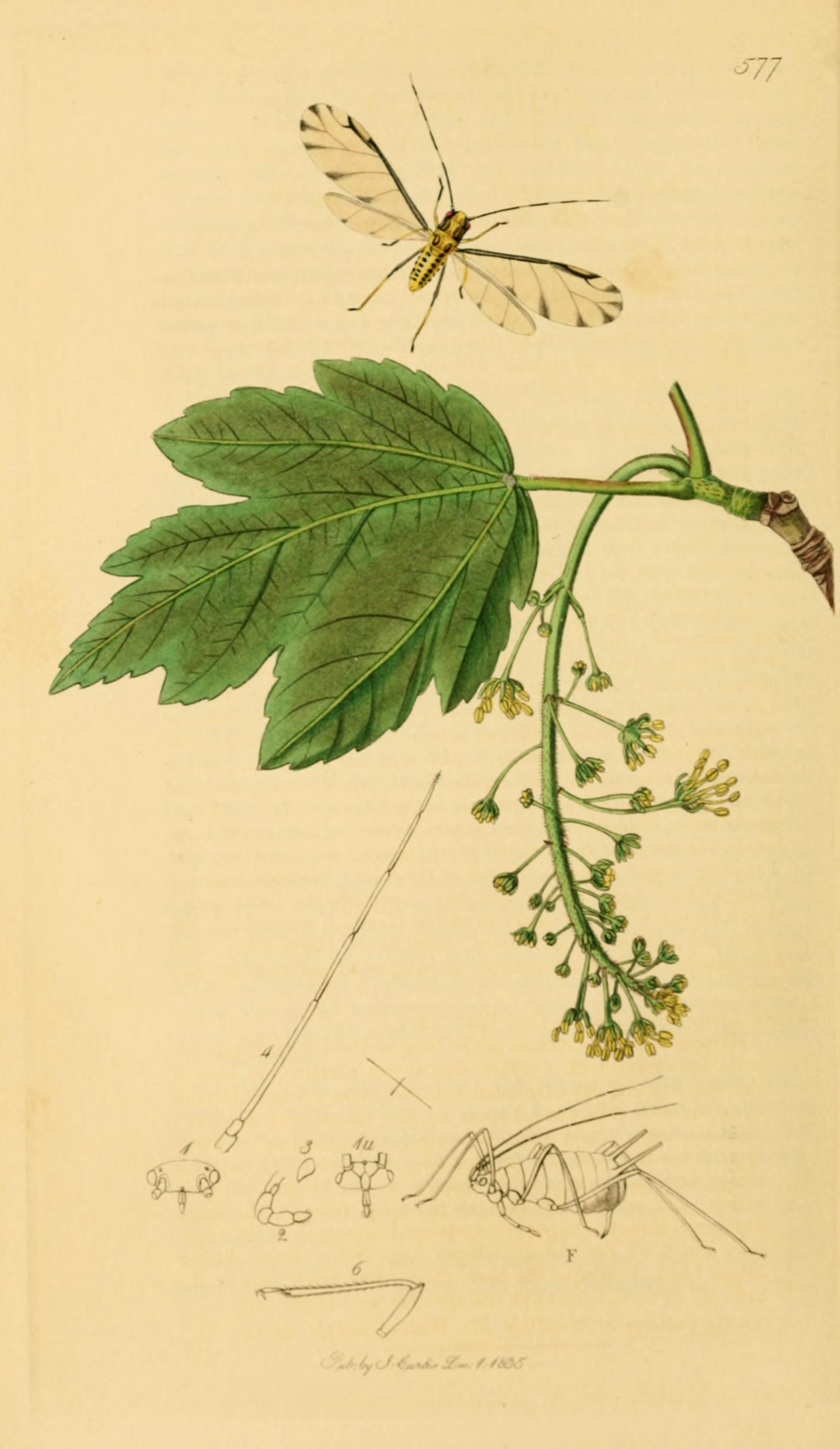 John Curtis British Entomology (1824-1840) Folio 577 Aphis tiliae synonym of Eucallipterus tiliae the Lime-tree Aphis.The plant is Acer pseudoplatanus (Sycamore).